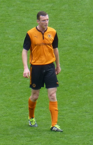 Collins during the Jody Craddock Testimonial (05.05.2014)